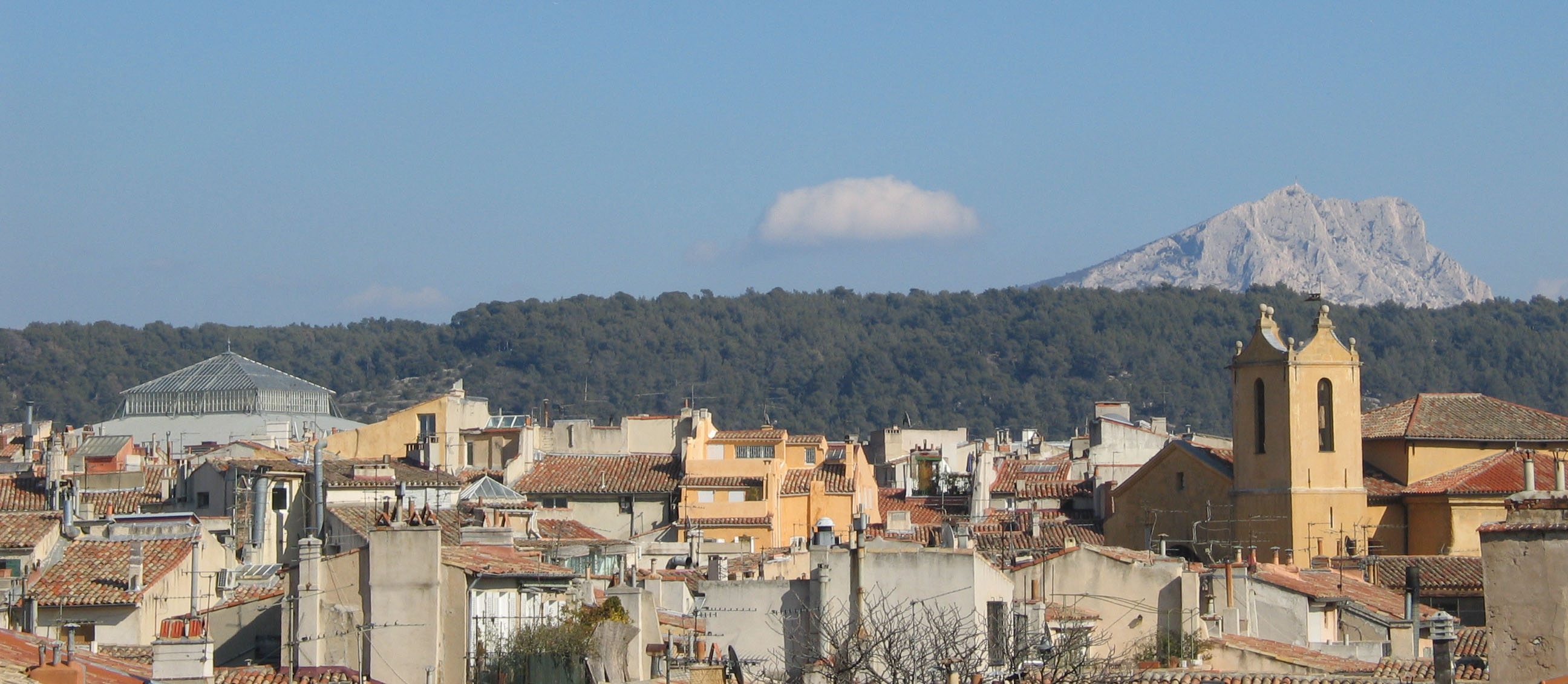 La Montagne Sainte-Victoire seen from the roofs of Aix-en-Provence.